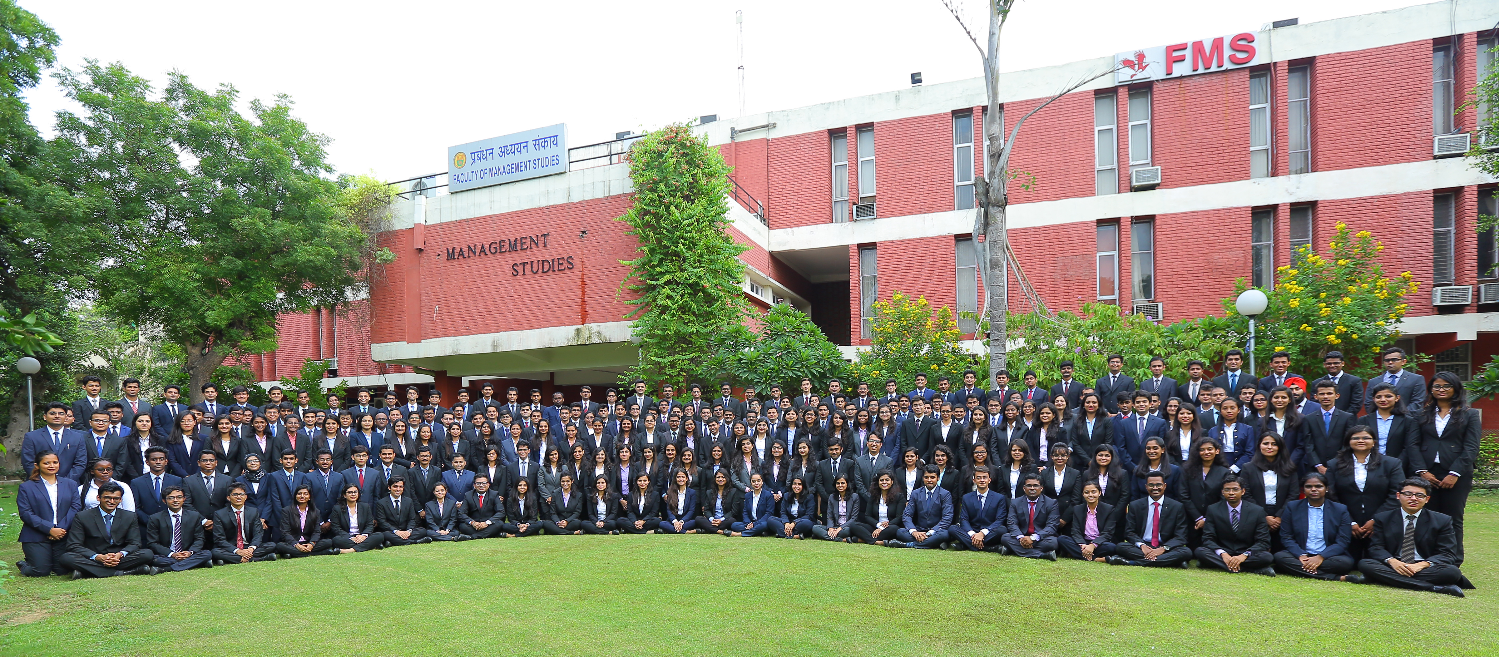 Batch photograph of 220 full time MBA students in FMS lawns for batch entering in academic year 2018.